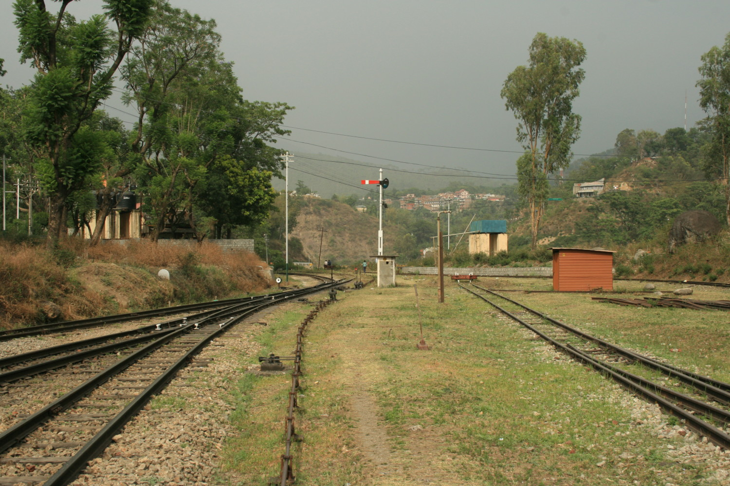 Line towards Jogindernagar